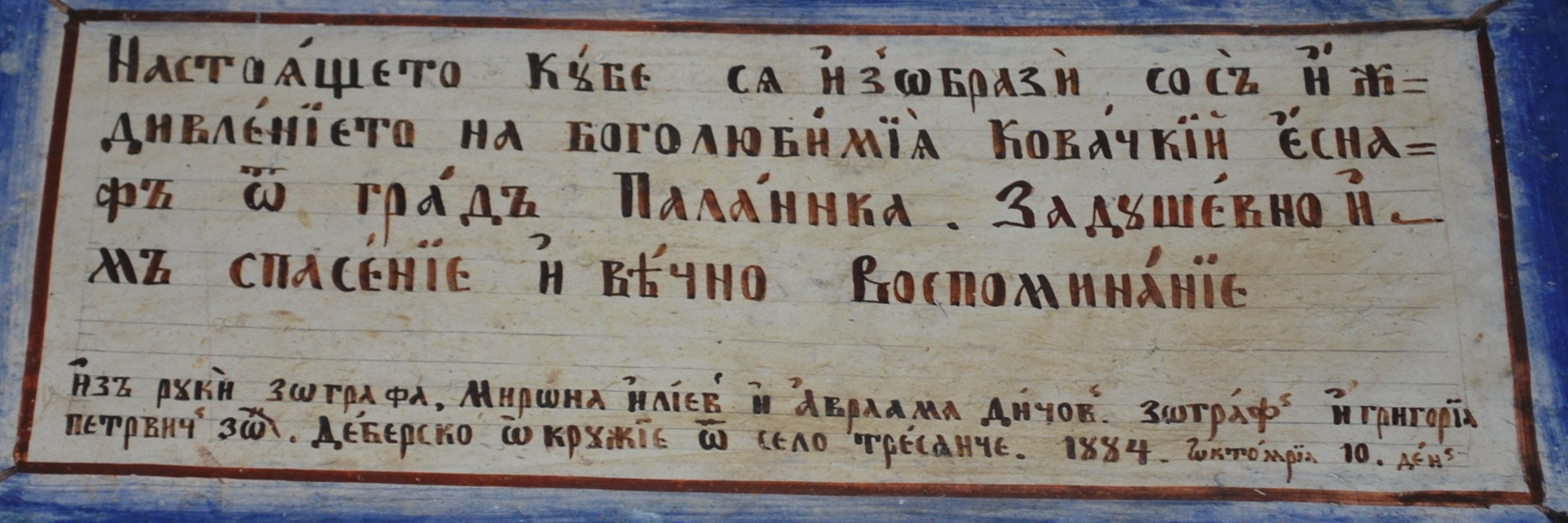 Frescoes in St. Joachim of Osogovo Church, Osogovo Monastery, Macedonia